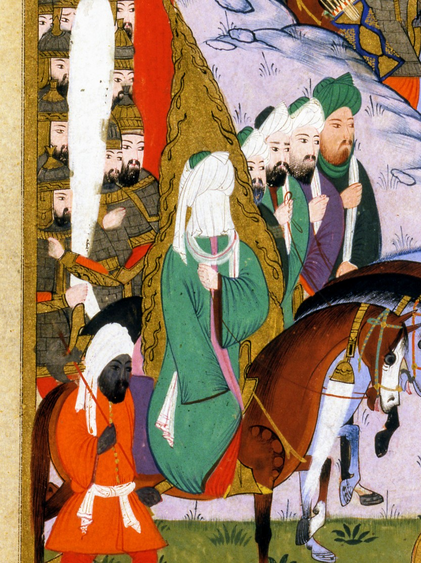 The Prophet Muhammad and the Muslim Army at the Battle of Uhud, from the Siyer-i Nebi, 1595